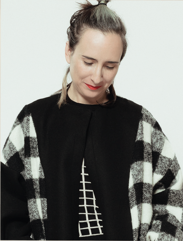 portrait of Carla Fernández